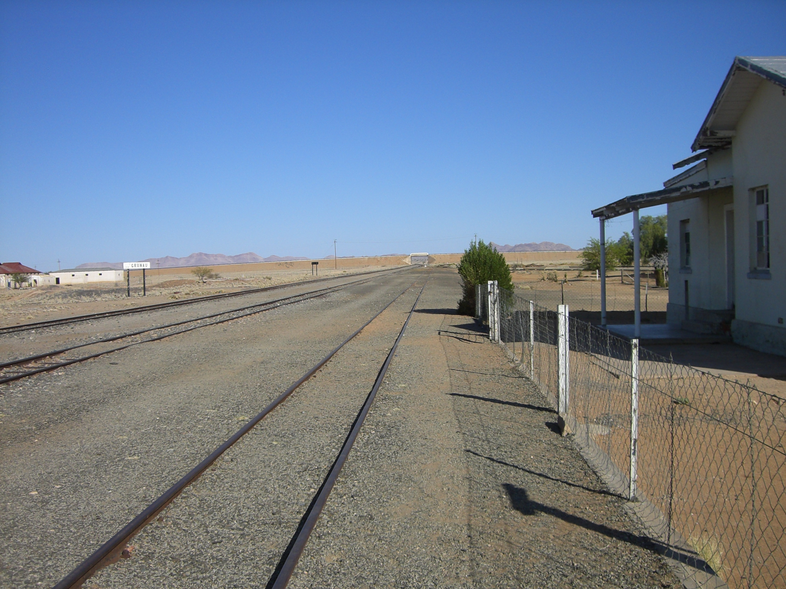 Railway station of Grünau, southern Namibia. The dilapidated building on the right is the station building which is currently unused and fenced off.